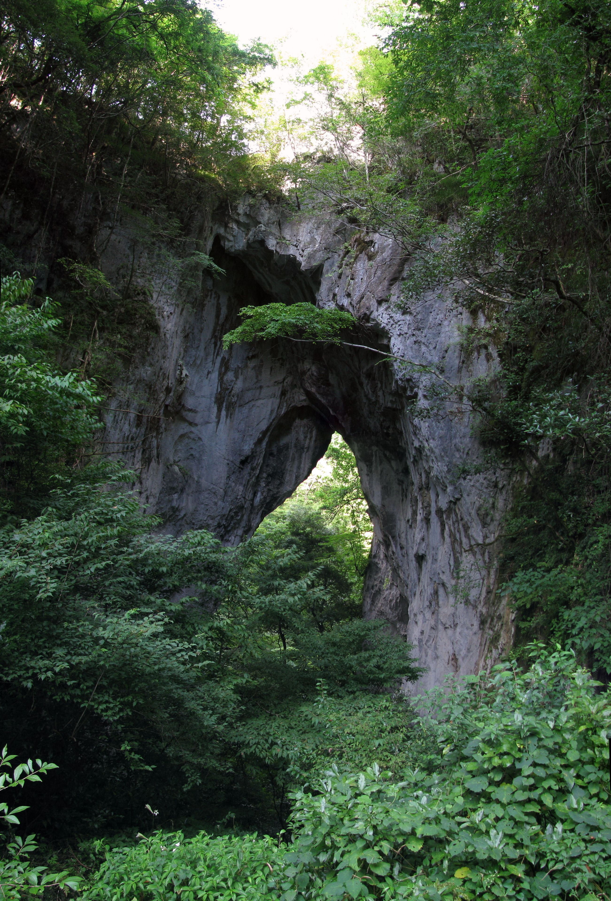 The Rashō-mon. This place is Niimi, Okayama Prefecture, Japan.